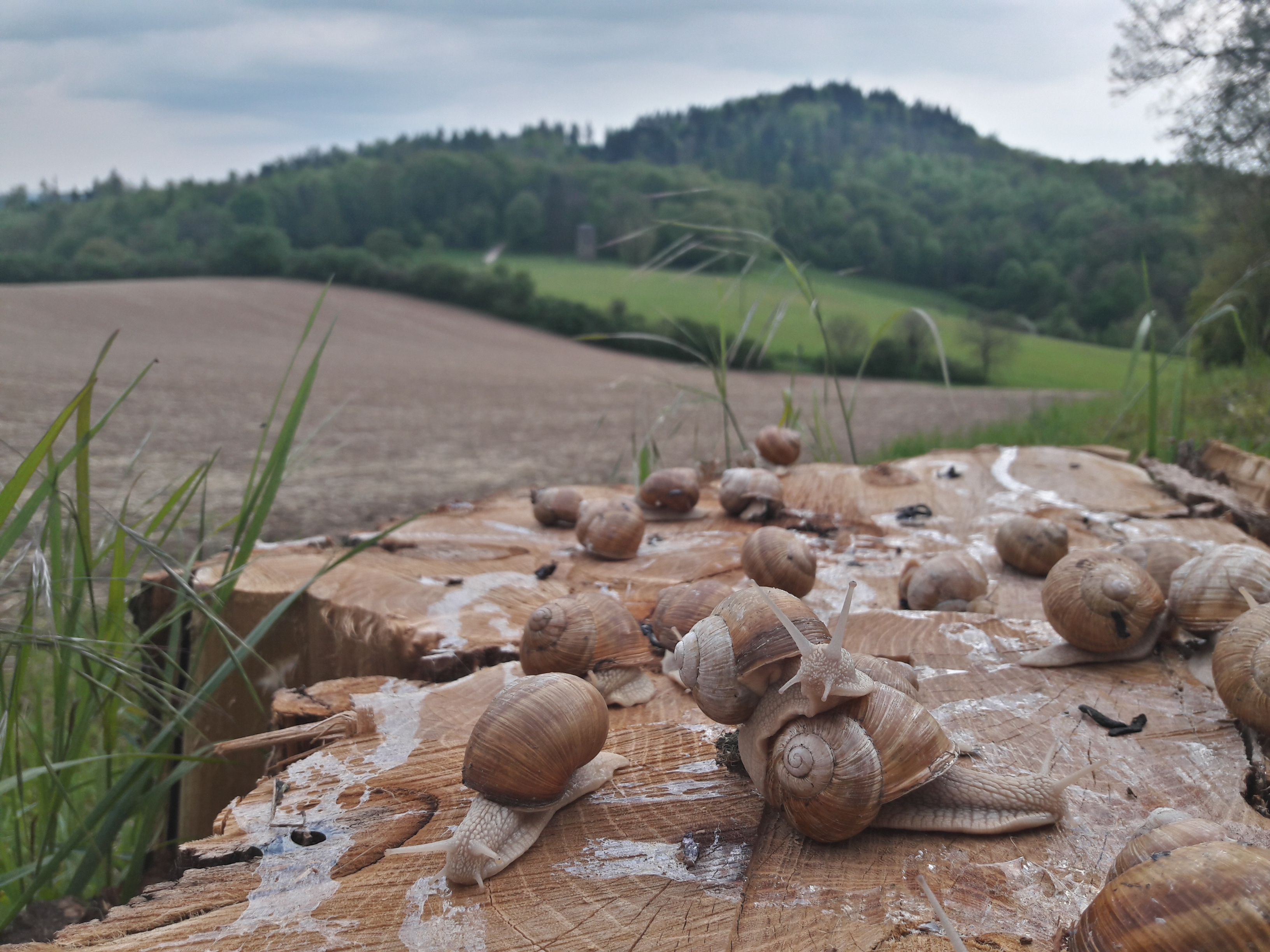 Many snails on a tree stump near Waldnerturm in the Odenwald, Germany.